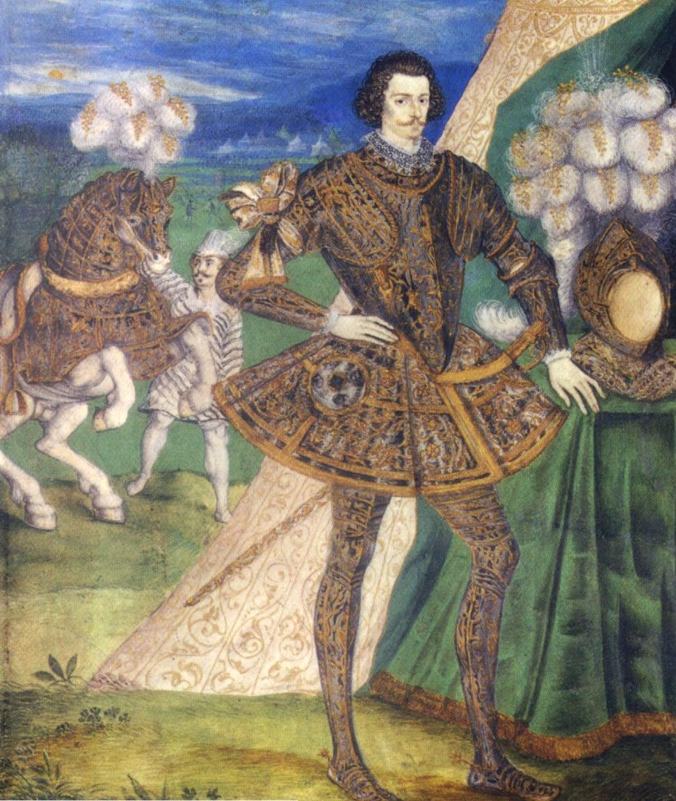 Robert Devereux, 2nd Earl of Essex, in tilting armour. He wears a lady's glove as a favor on his right arm; this miniature may commemorate his appearance at a tournament in 1595 when Elizabeth I of England gave him her glove.